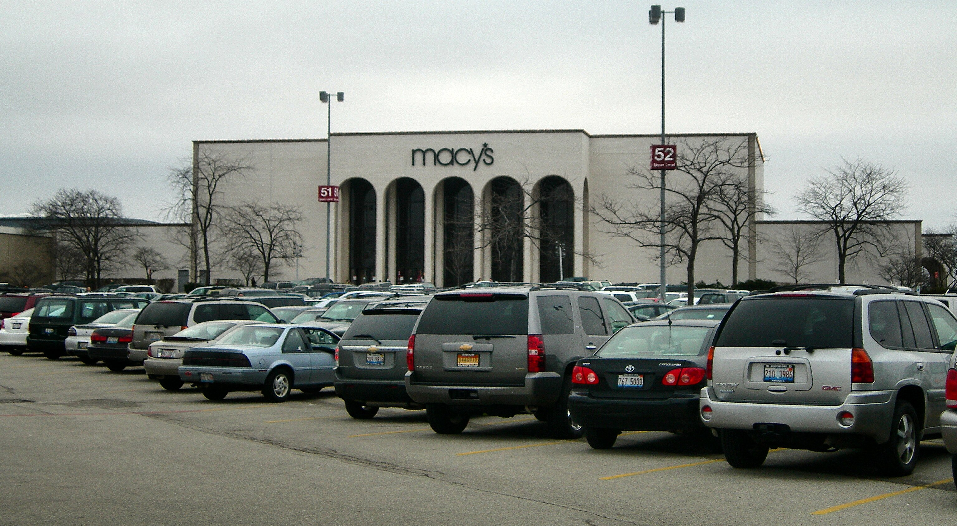 Macy's store at Westfield Hawthorn mall.